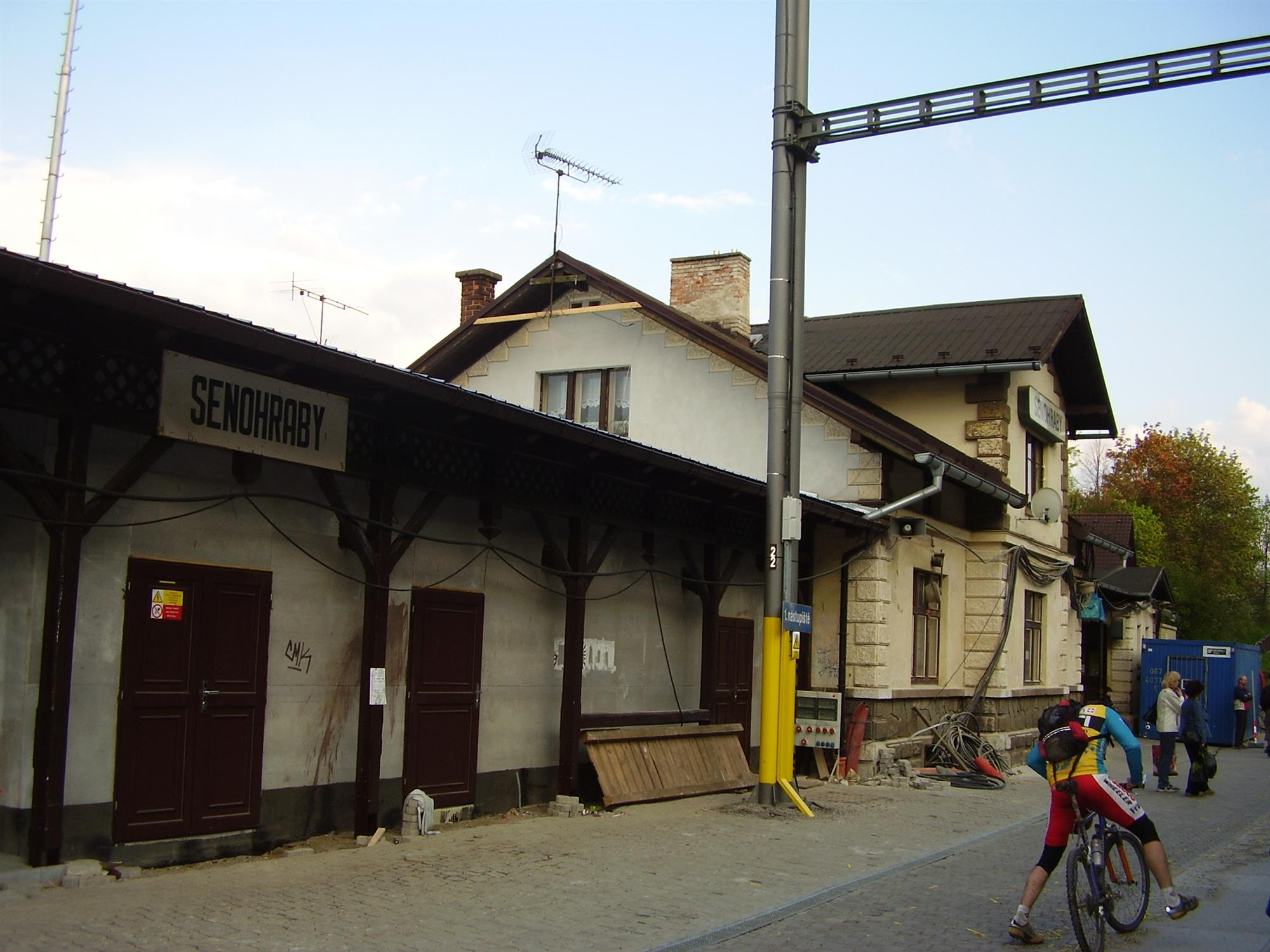 Train station in Senohraby